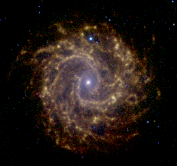 Image of the NGC 3184 galaxy in Infrared at 3.6 (blue), 5.8 (green) and 8.0 (red) µm. The image has been made by myself (Médéric Boquien) from the data retrieved on the SINGS project public archives of the Spitzer Space Telescope (courtesy NASA/JPL-Caltech)